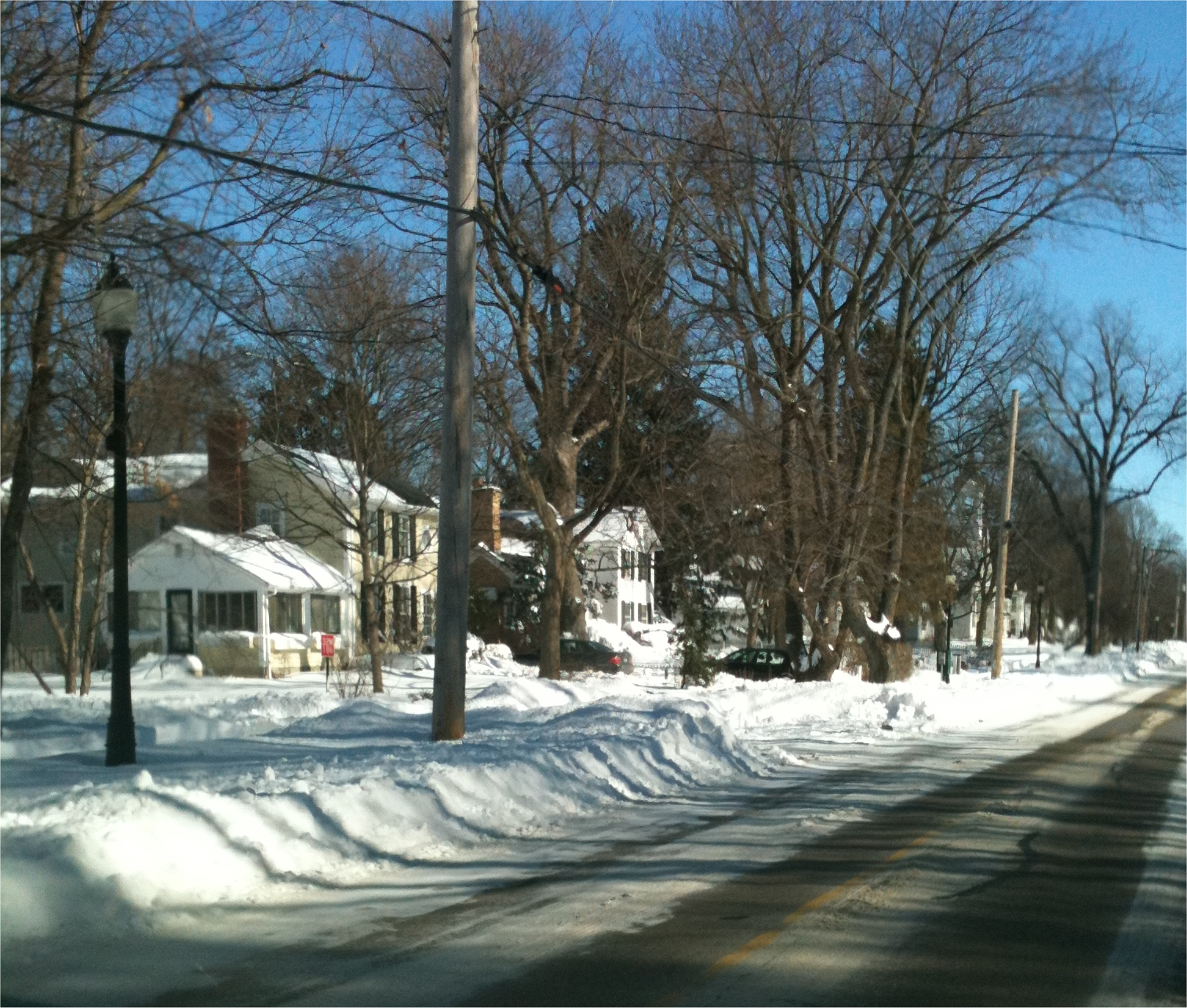 Village of Wayne Illinois looking east on Army Trail about 50 yards east of Railroad Street on 03Feb2011